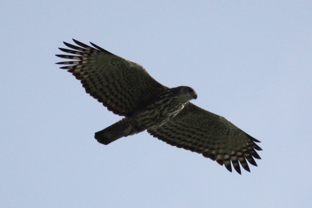 Adult pale morph Changeable Hawk Eagle, taken at Cape Rachado, Tanjung Tuan, Port Dickson, Negeri Sembilan, Malaysia. During season migration to northern hemisphere. Taking condition: Image Type: jpeg (The JPEG image format). Camera Brand: Canon. Camera Model: Canon EOS 450D. Date Taken: 2009:02:08 17:13:24. Exposure Time: 1/800 sec. Aperture Value: 5.38 EV (f/6.4). ISO Speed Rating: 500. Flash Fired: Flash did not fire, compulsory flash mode. Metering Mode: Spot. Exposure Program: Shutter priority. Focal Length: 250.0 mm.